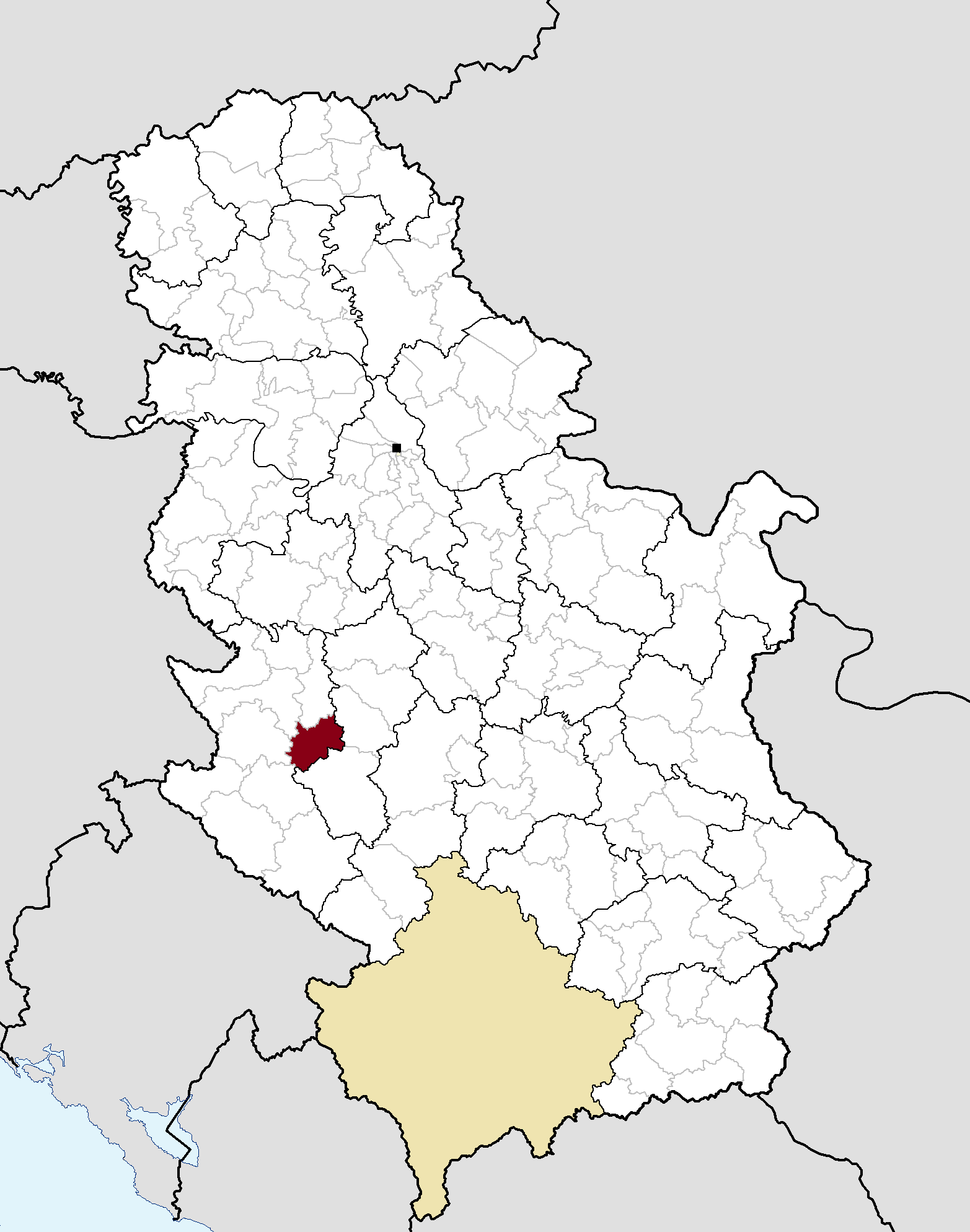 Municipal location in Serbia